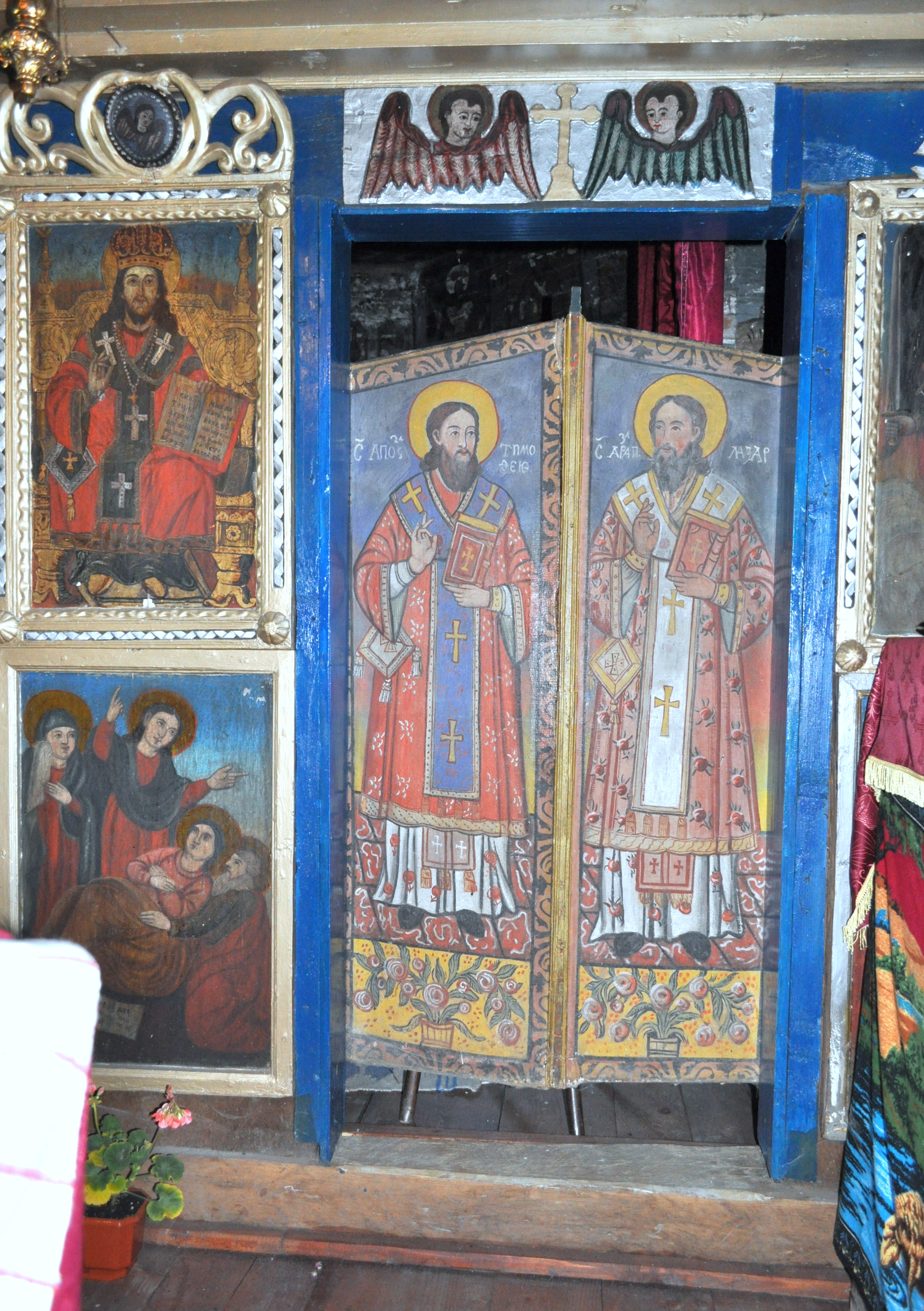 Wooden church in Săcalu de Pădure, Mureș countyRomână: Biserica de lemn din Săcalu de Pădure, județul Mureș